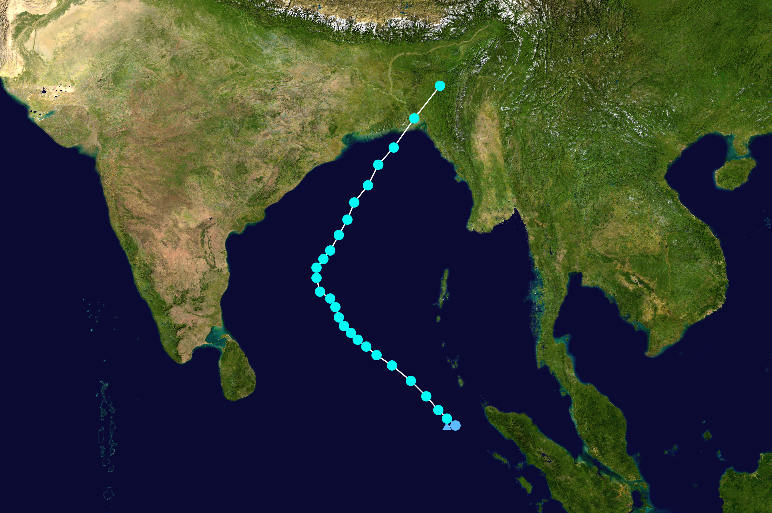 Track map of Cyclone Viyaru of the 2013 North Indian Ocean cyclone season. The points show the location of the storm at 6-hour intervals. The colour represents the storm's maximum sustained wind speeds as classified in the Saffir–Simpson scale (see below), and the shape of the data points represent the nature of the storm, according to the legend below. Saffir–Simpson scale Tropical depression≤38 mph≤62 km/h Category 3111–129 mph178–208 km/h Tropical storm39–73 mph63–118 km/h Category 4130–156 mph209–251 km/h Category 174–95 mph119–153 km/h Category 5≥157 mph≥252 km/h Category 296–110 mph154–177 km/h Unknown Storm type Tropical cyclone Subtropical cyclone Extratropical cyclone / Remnant low / Tropical disturbance / Monsoon depression